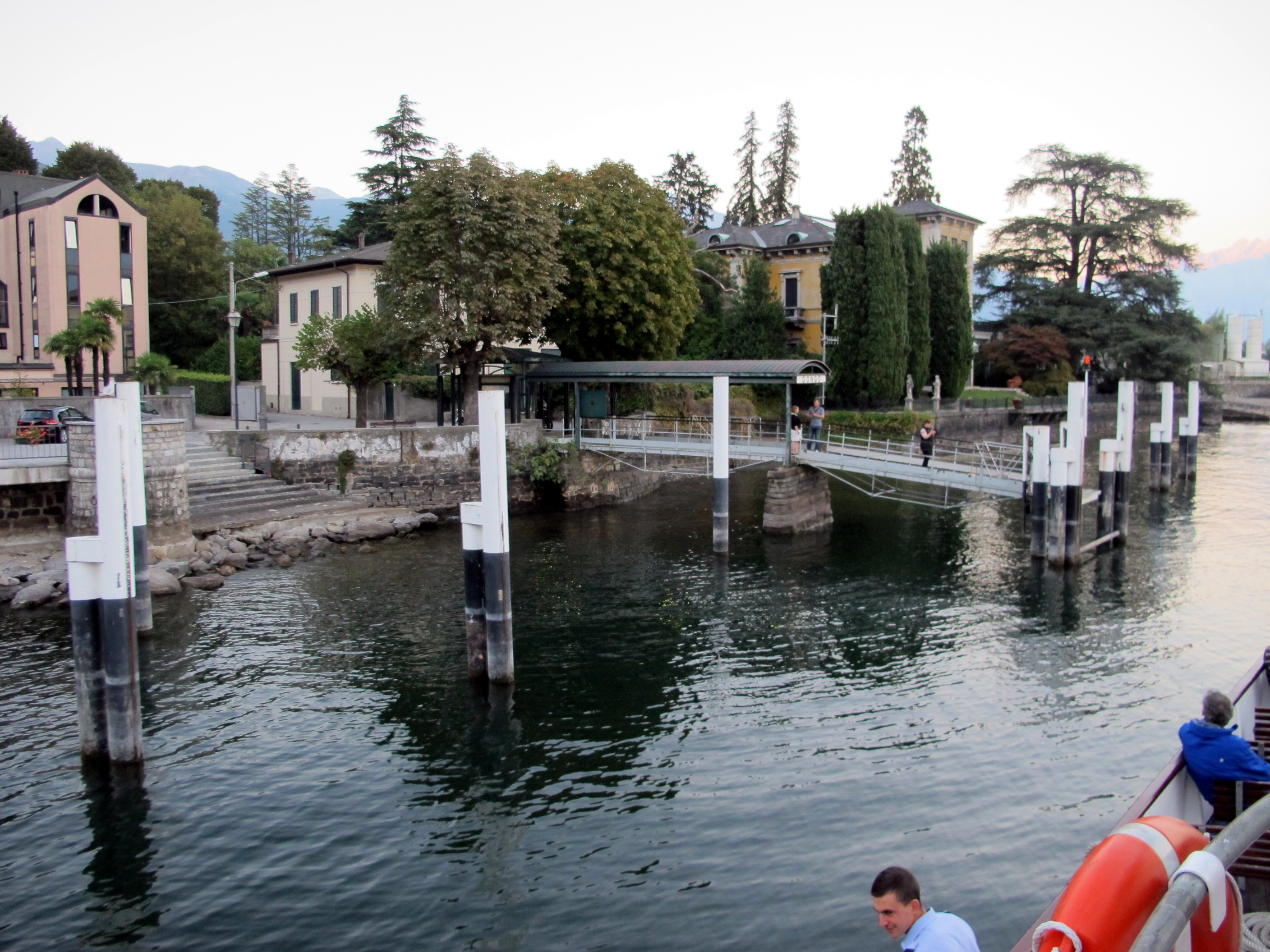 Italy, Lombardy, Lake Como, Dongo, Pier